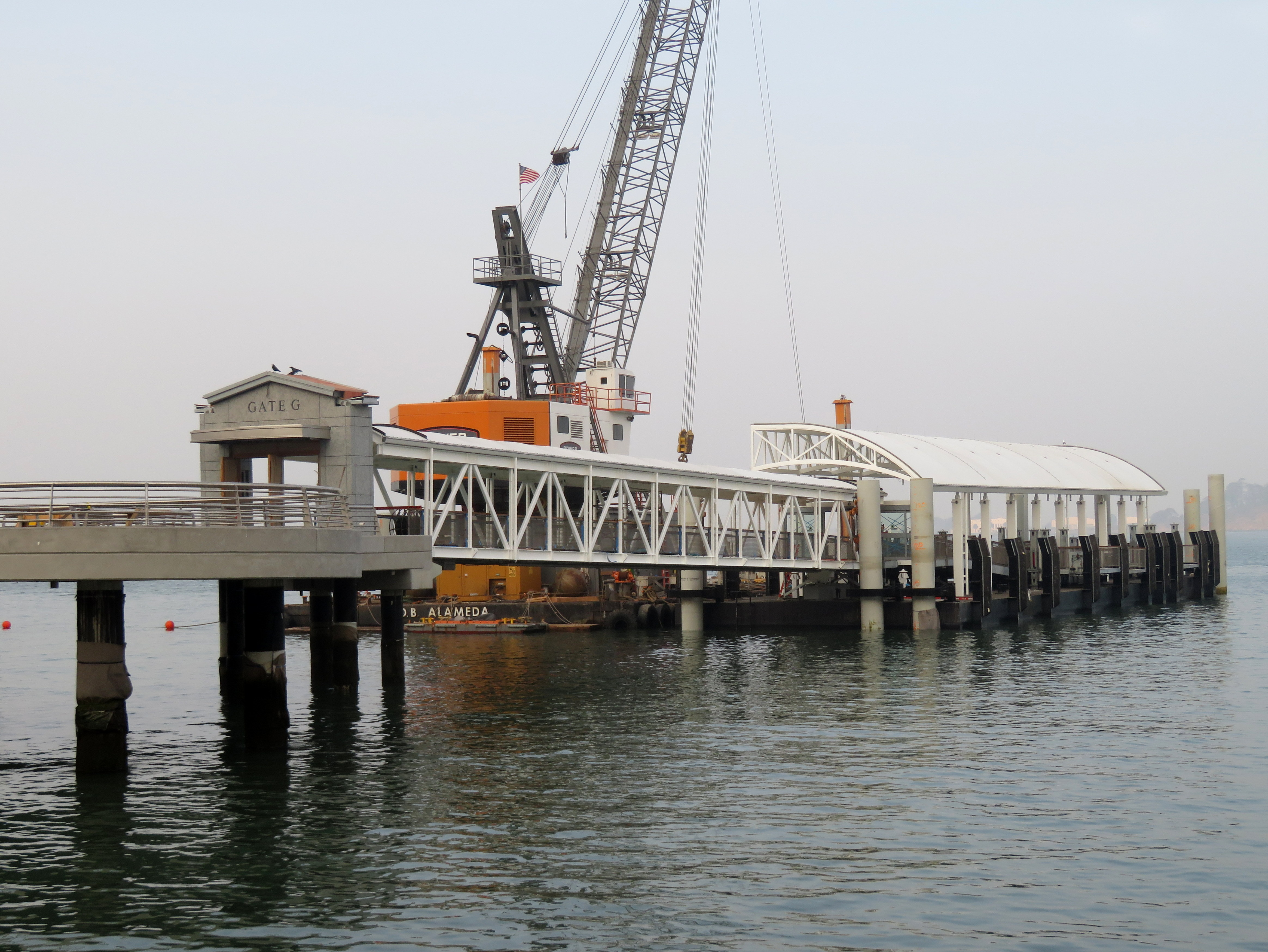 Construction of Gate G during the Ferry Terminal expansion in November 2018. Smoke from the Camp Fire is visible.